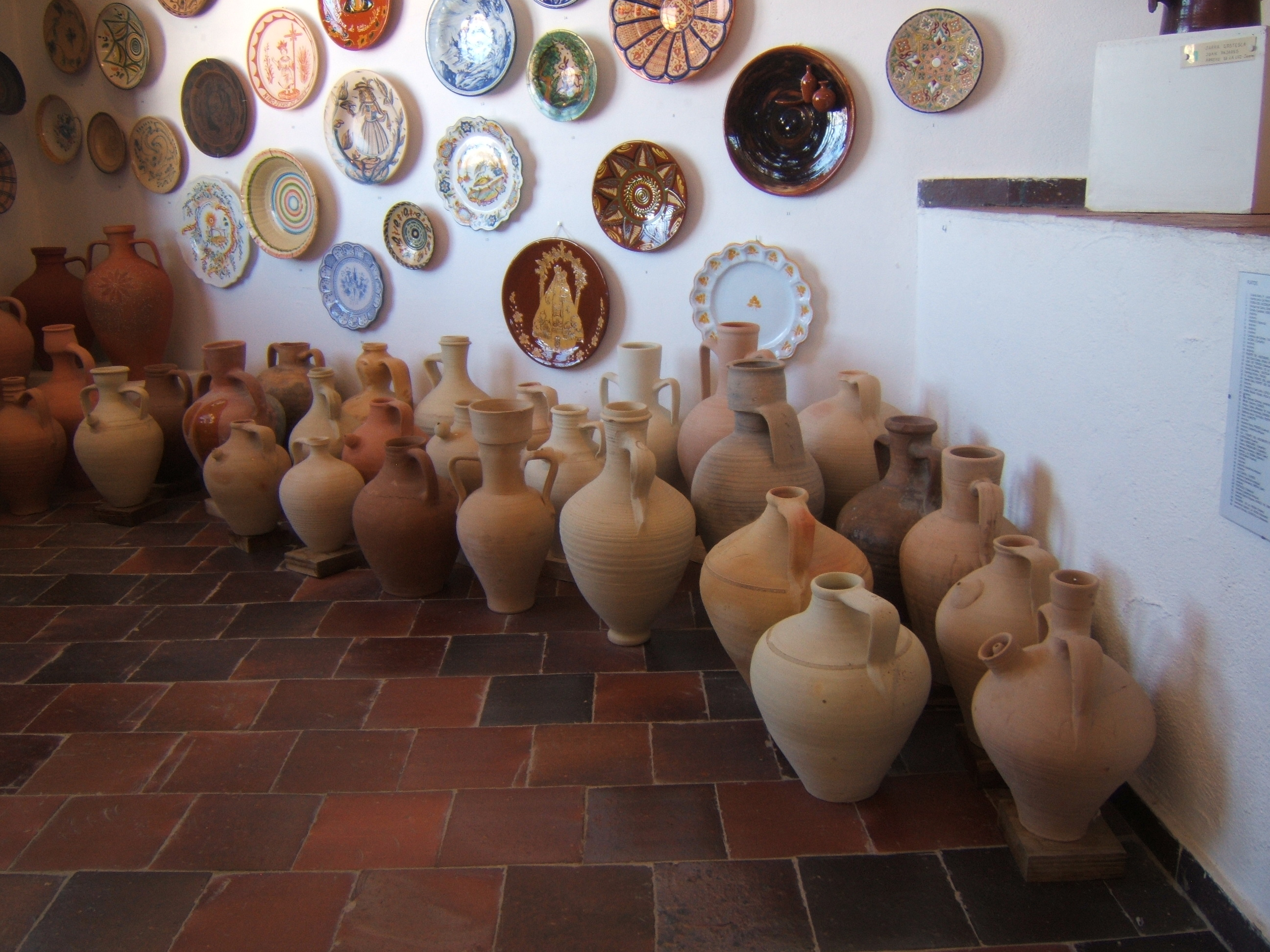 Collection of potters pitchers and dishes of ceramics on the fourth floor of the Museum of ceramic national of Chinchilla de Monte-Aragón (Albacete), Spain.